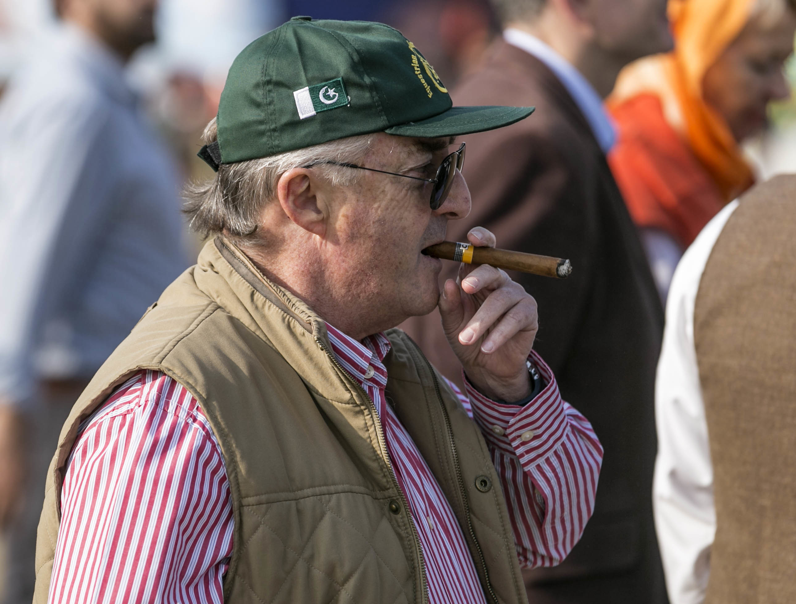 Argentinian Ambassador to Pakistan (2004-2016). Photo Credits: Imran Niazi Photography